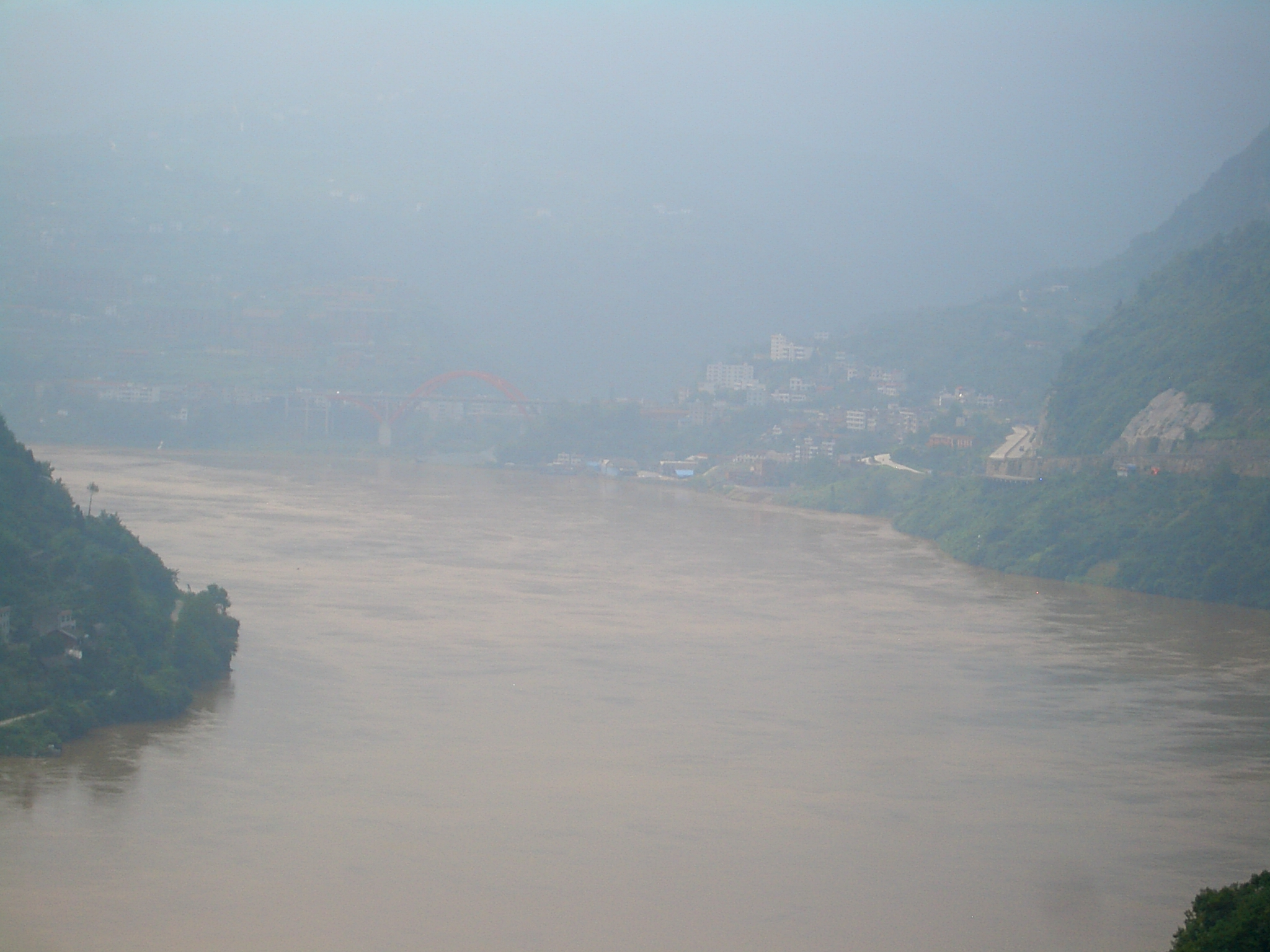 Liantuo village (Yiling District, between Yichang and Sandouping) seen from the east, from Hubei route S334